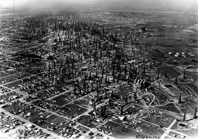 (1930)^ - Aerial view of Signal Hill's oil field, from Reservoir Hill. A sea of oil wells almost cover the entire City of Signal Hill. Historical Notes Before oil was discovered in Signal Hill, there were large homes built on the hill itself, and in the lower elevations was an agricultural area where fruits, vegetables, and flowers were grown. Many of the truck farmers were Japanese. Between 1913 and 1923 an early California movie studio, Balboa Amusement Producing Company (also known as Balboa Studios), was located in Long Beach and used 11 acres on Signal Hill for outdoor locations. Buster Keaton and Fatty Arbuckle were two of Balboa Studio actors who had films shot on Signal Hill.^*